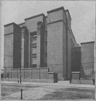 Anonymous. Larking building. c 1919 (?). Photo. From Theo van Doesburg. Drie voordrachten over de nieuwe beeldende kunst. Amsterdam: Maatschappij voor goede en goedkoope lectuur, 1919: p. 99.